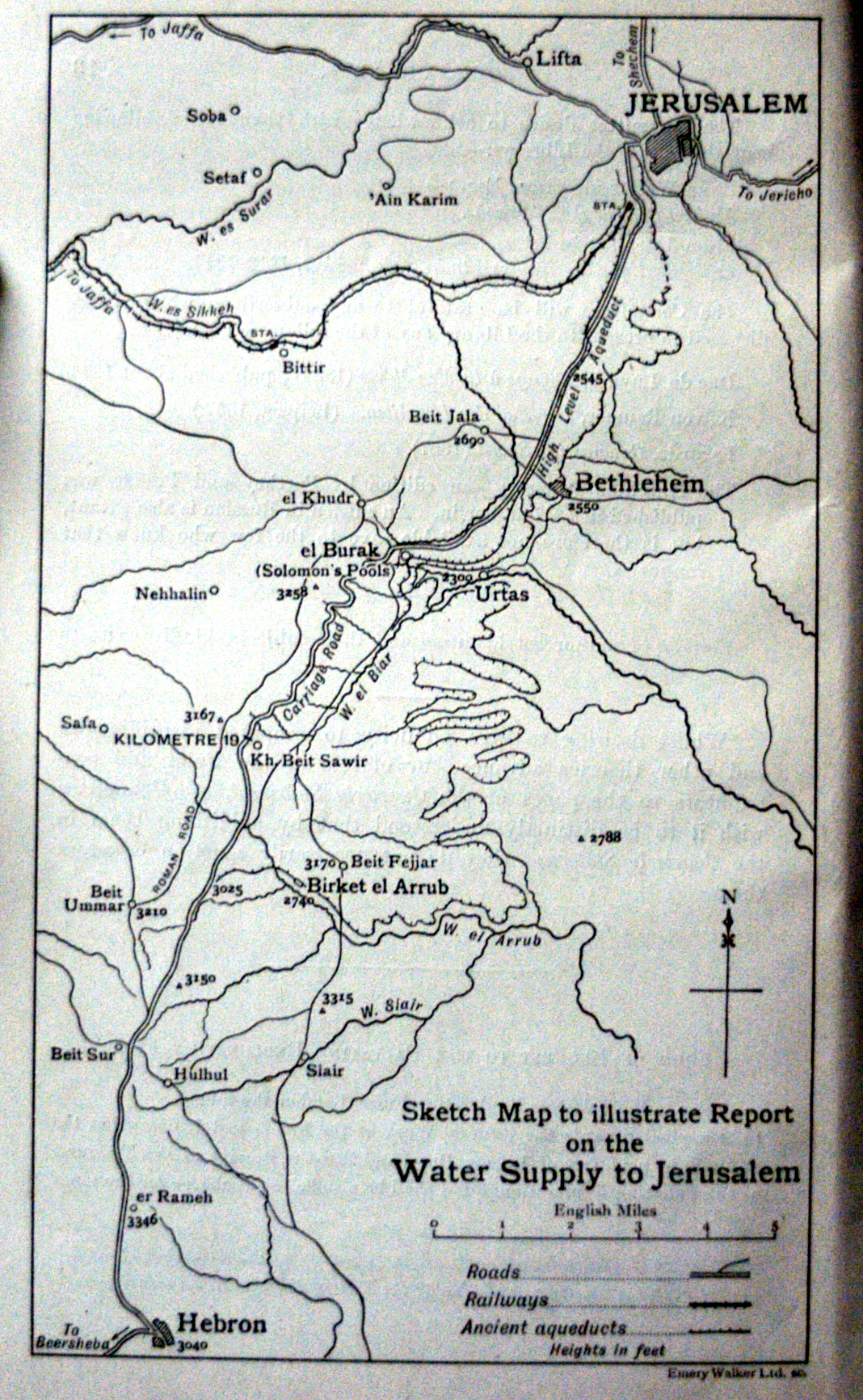 Map of water supply to Jerusalem, 1919.